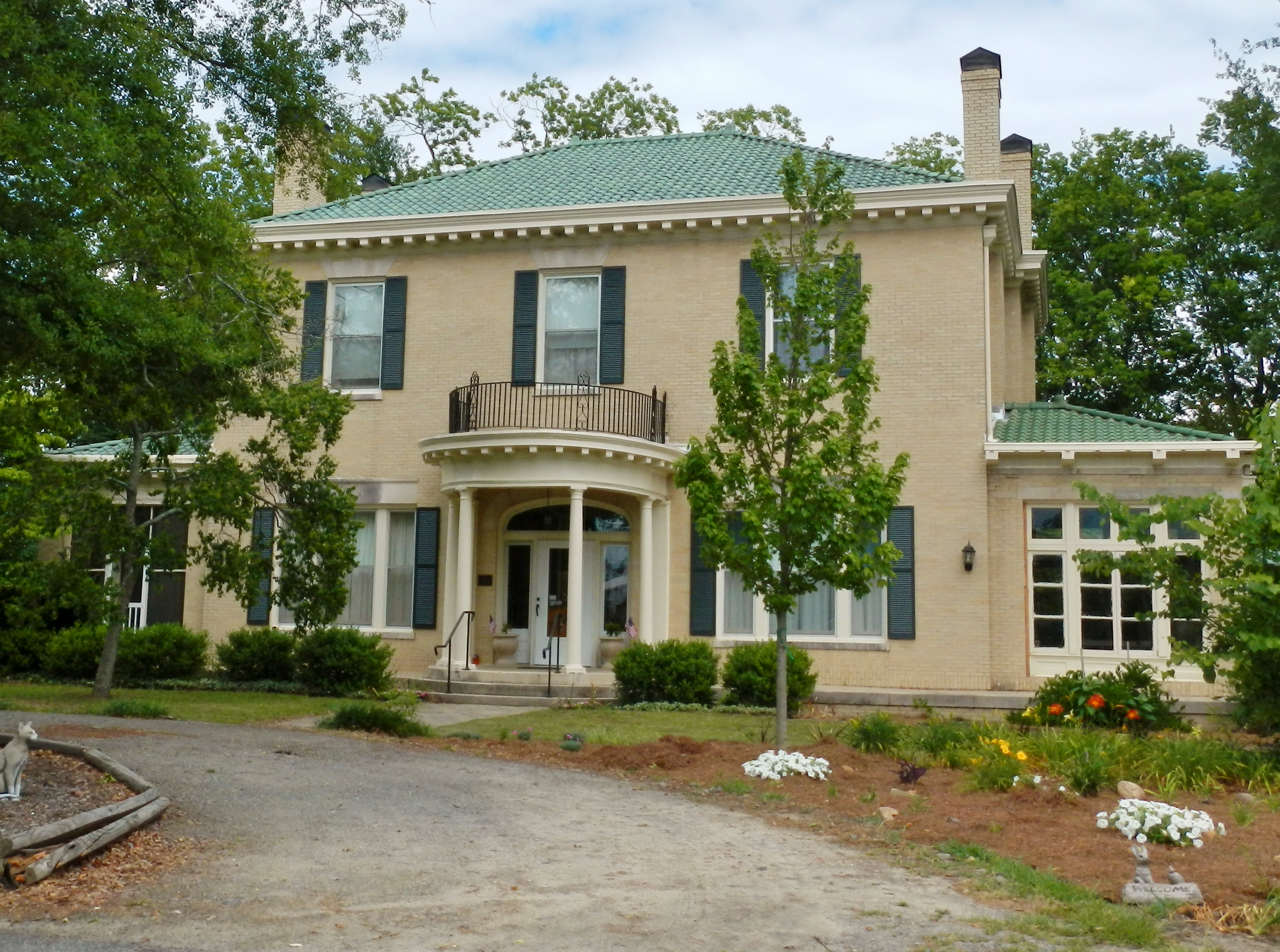 This is a photo of the Ferdinand A. Ricks House in Reynolds, GA. It's listed on the NRHP.